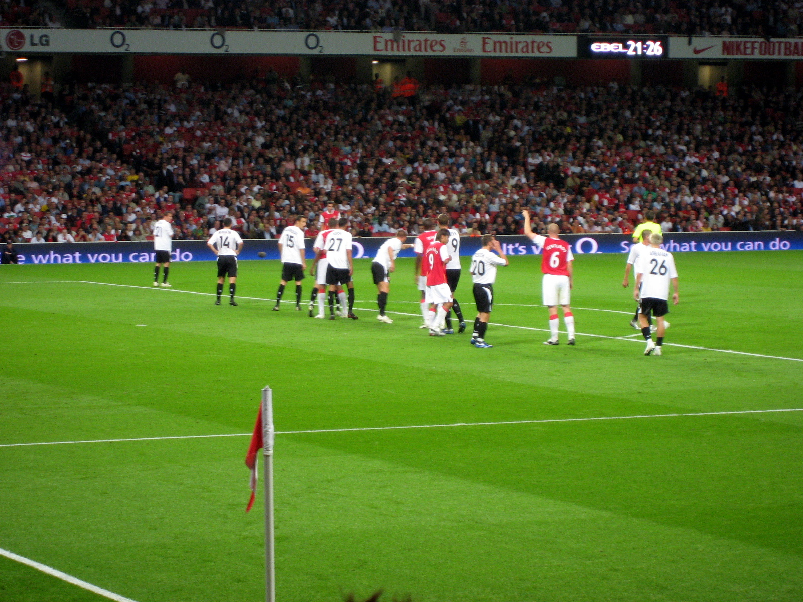 Champions League 2007-08 preliminar match between Arsenal and Sparta Praha, in the Emirates Stadium.Free Kick